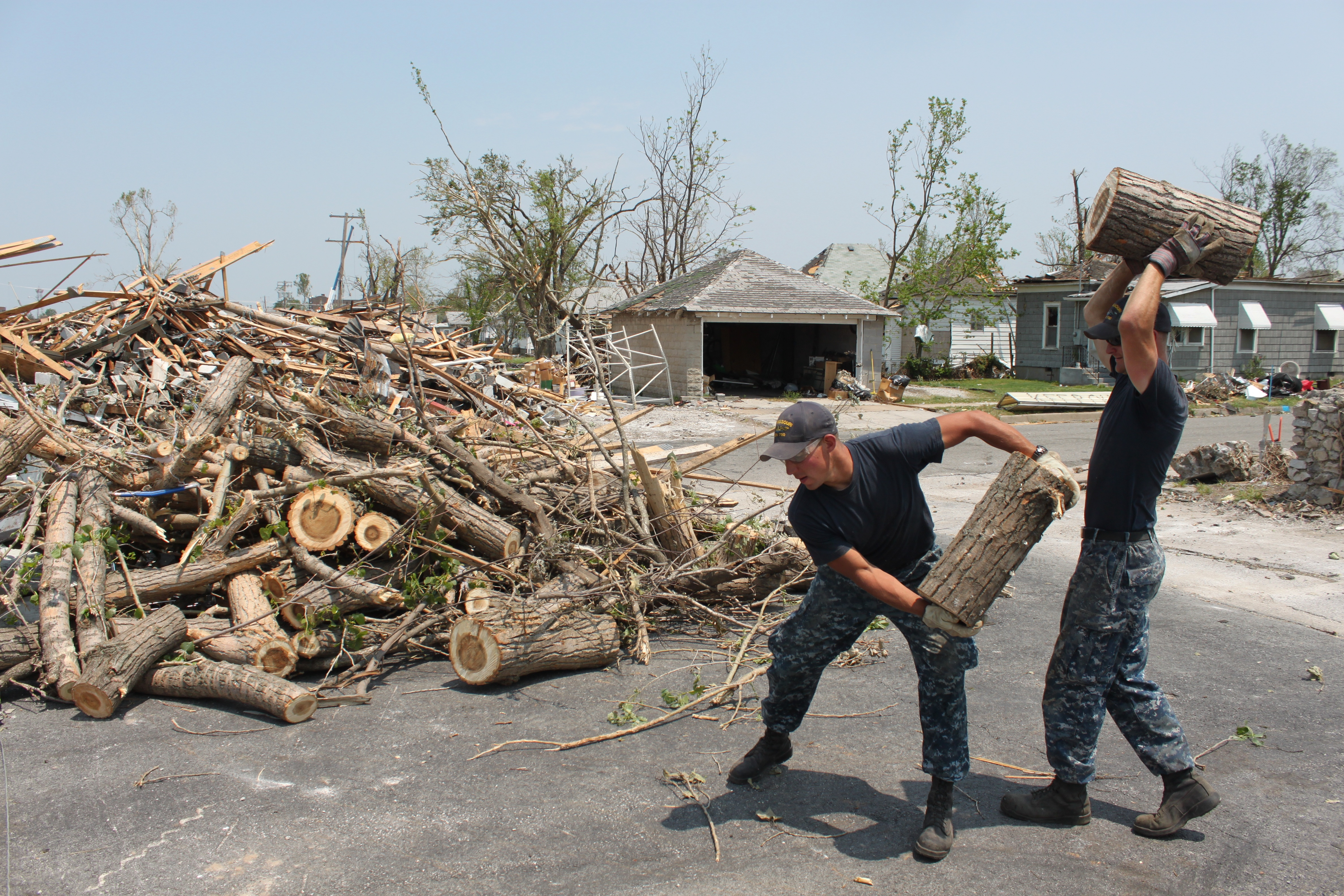 JOPLIN, Mo. (June 7, 2011) Lt. j.g. Ryan Sullivan, front, and Machinist's Mate 2nd Class Travis Fitzgerald place debris in a pile near the street. Eight Sailors assigned to the fast attack submarine USS Missouri (SSN 780) are helping with clean-up efforts in Joplin. (U.S. Navy photo Chief Yeoman Michael Shea/Released)